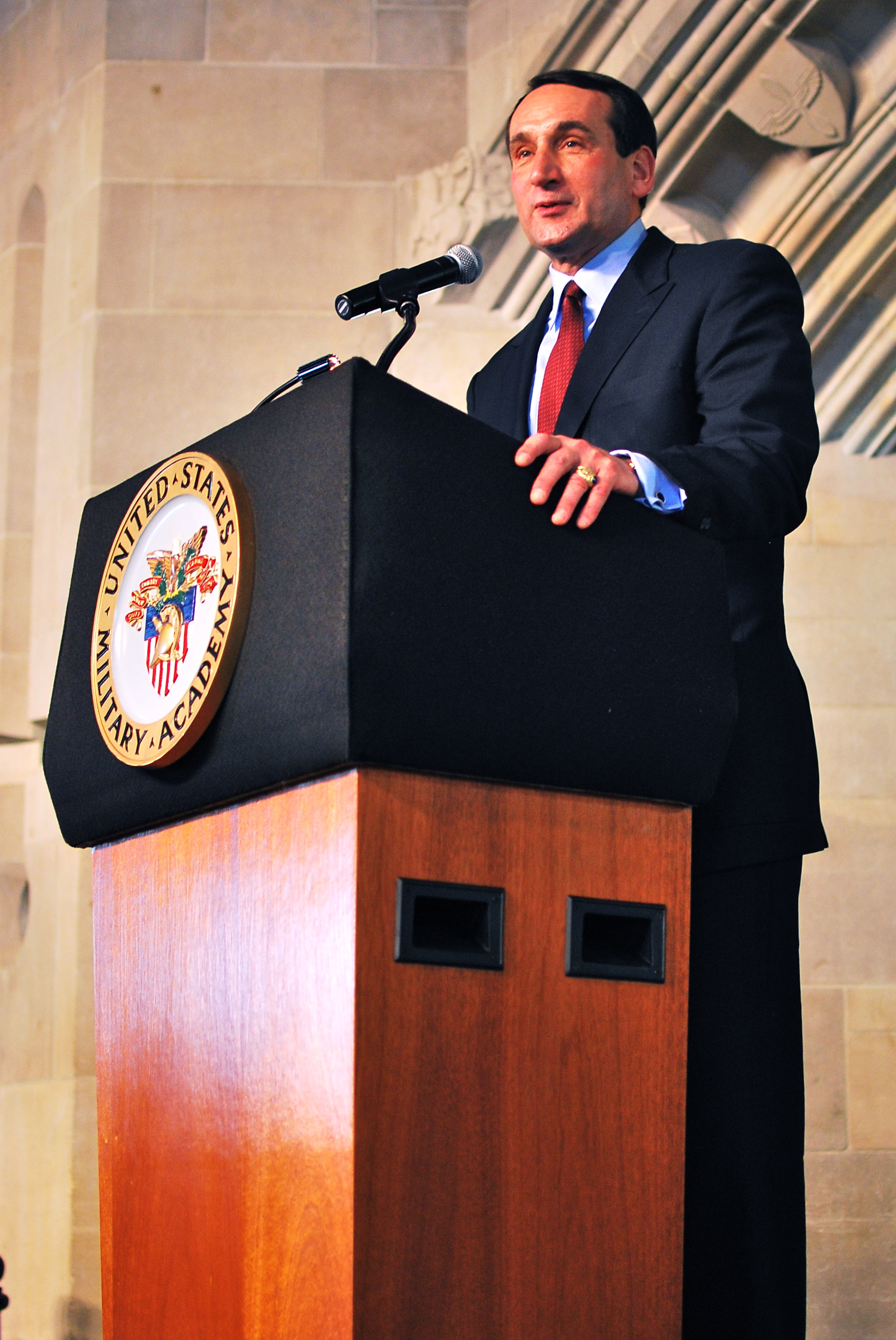 Duke and USA Basketball Head Coach Mike Krzyzewski speaks at the United States Military Academy at West Point